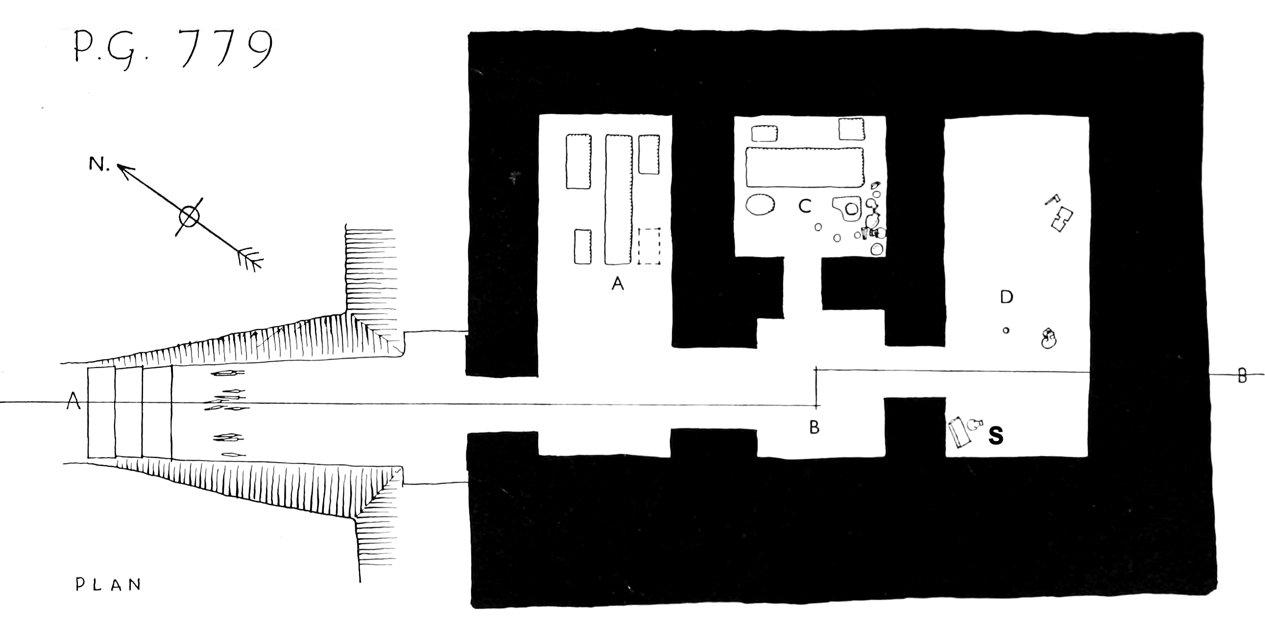 Identifier: urexcavations191319join Title: Ur excavations Year: 1900 (1900s) Authors: Joint Expedition of the British Museum and of the Museum of the University of Pennsylvania to Mesopotamia Hall, H. R. (Harry Reginald), 1873-1930, ed Woolley, Leonard, Sir, 1880-1960 Legrain, Leon, 1878- ed Subjects: Publisher: [n.p.] Pub. for the Trustees of the Two Museums by the aid of a grant from the Carnegie Corporation of New York Text Appearing Before Image: b. PG/777. INTERIOR OF THE CHAMBER SHOV\Ii\C (x X X) IHL HOLES IN THE STONEWORK LEFTBY THE ROOFING-BEAMS, v. pp. 53, 233 PLATE 24 Text Appearing After Image: (J ca ^- u_ PLATE 25